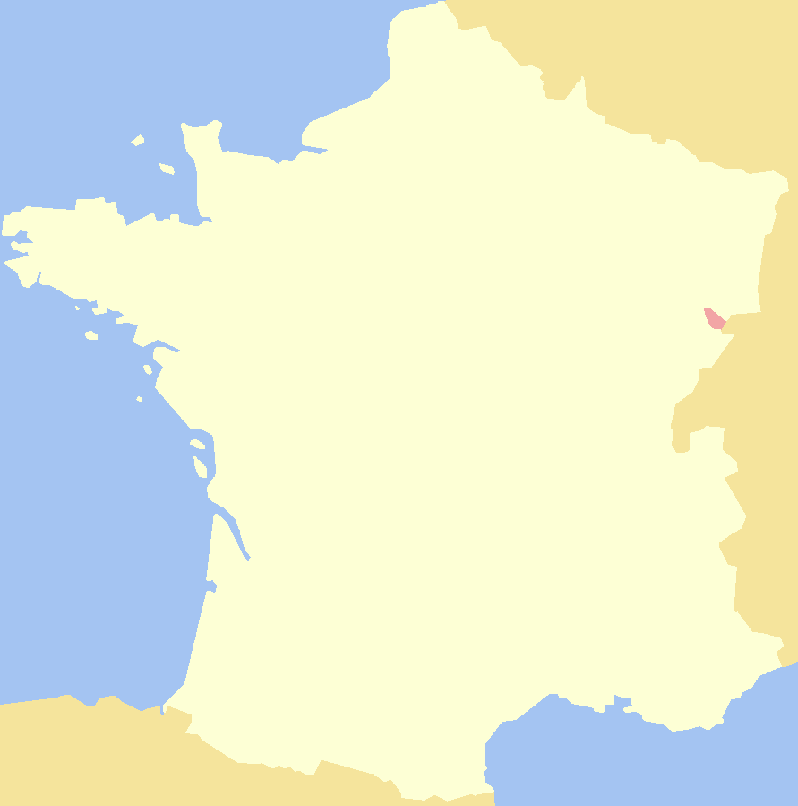 Principality of Montbéliard.